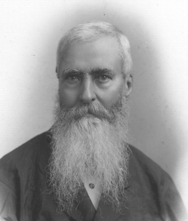 The image is a black and white, head and shoulders, portrait photograph of Robert Caldwell (1814-91). It was taken at the author's premises in Madras circa 1877